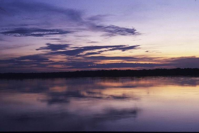 Branco River created by he:משתמש:בן הטבע